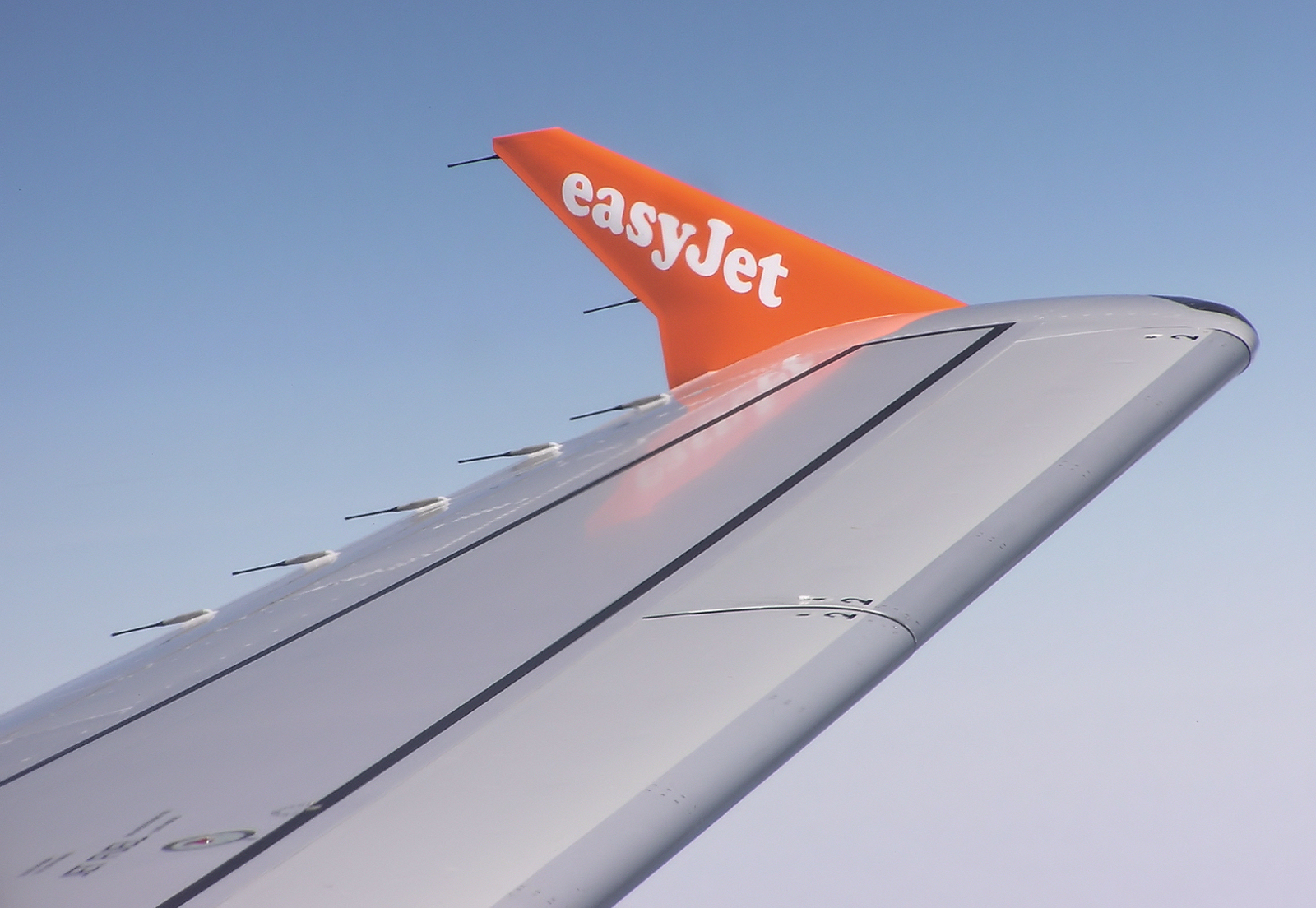 Wingtip device (better known as a winglet) on the port (left) wing of an EasyJet Airbus A319-100 (G-EZBV). In flight somewhere between Bristol (England) and Rome (Italy).